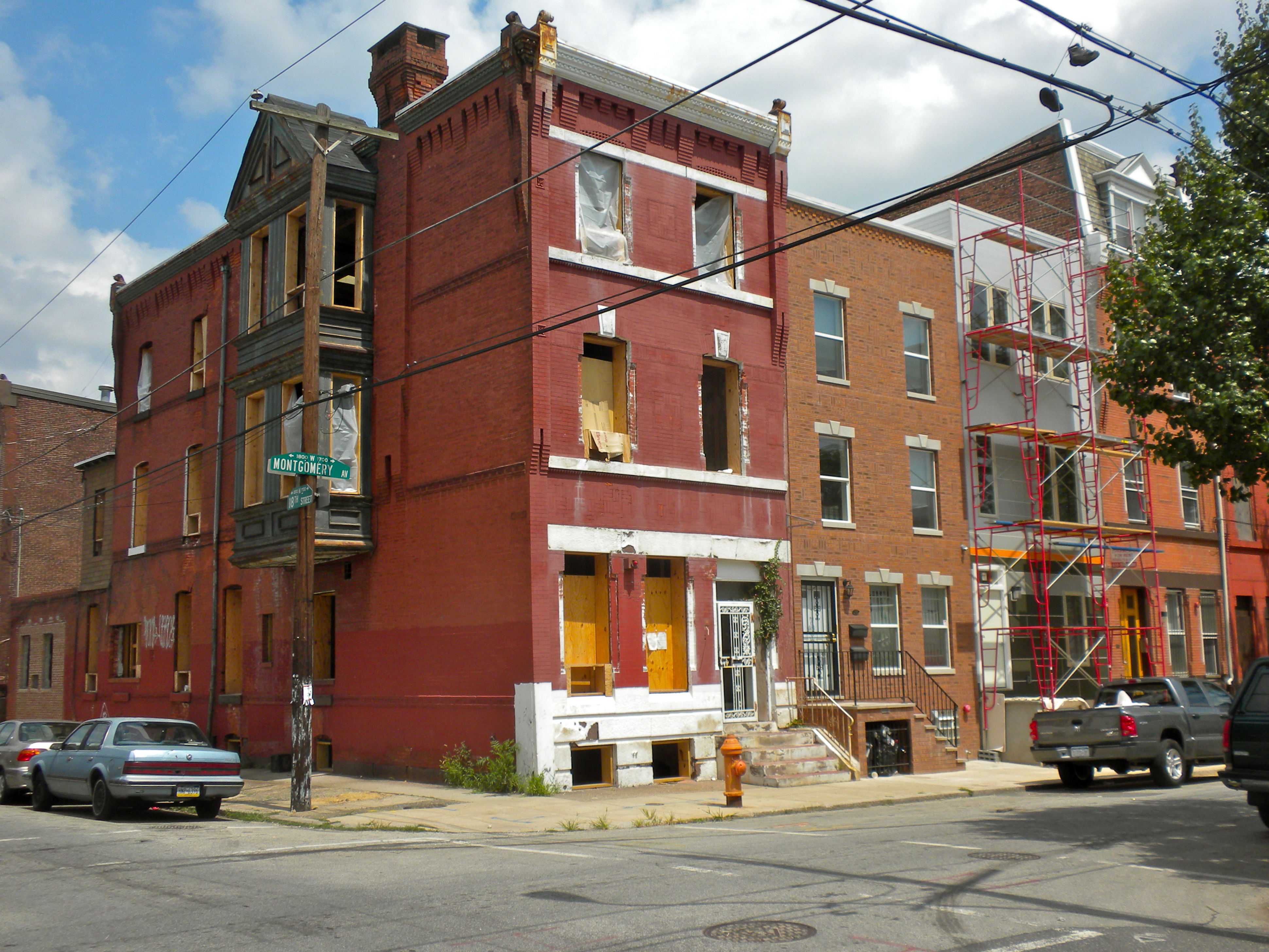 Lower North Philadelphia Speculative Housing Historic District on the March 12, 1999. The Historic District is roughly bounded by North 15th St., Sydenham St., North 16th St., Montgomery Ave., North 19th St., Jefferson St., and Willington St. in North Central Philadelphia. These particular houses are just south of Montgomery and 18th street.